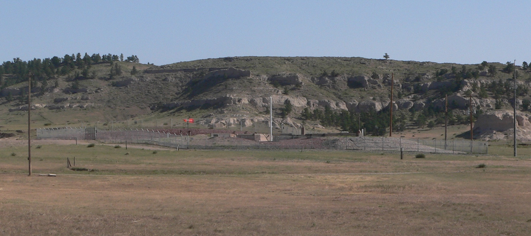 ICBM silo in Banner County, Nebraska: located on southern slope of Wildcat Hills, on east side of Wright's Gap Road.